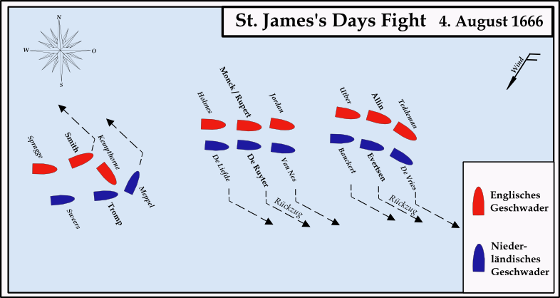 Map showing the Battle of Northforeland or "St. James's Day Fight" (August 2nd, 1666) between English and Dutch Ships (German version)